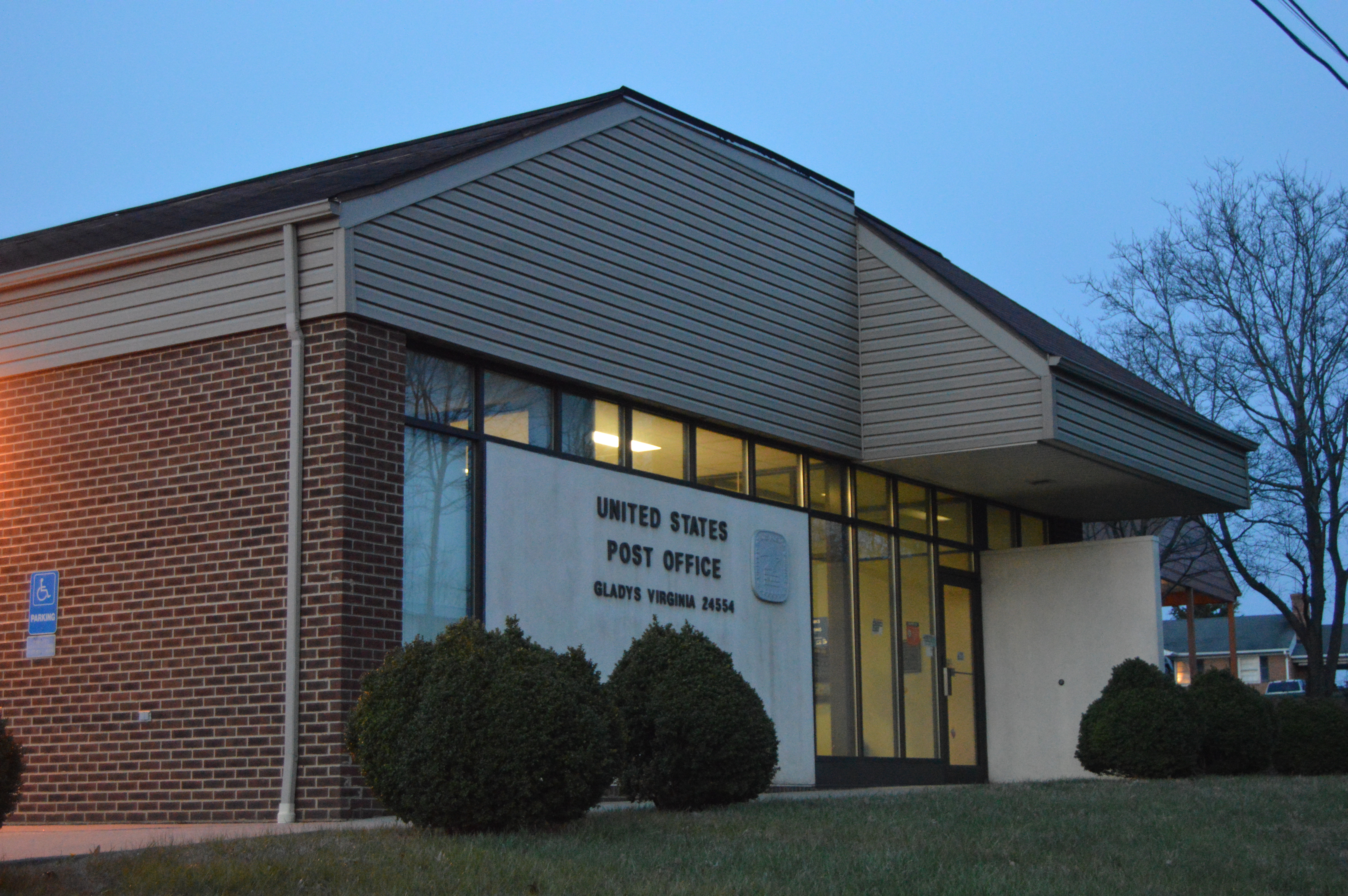 Front of the Gladys post office, located at 62 Pigeon Run Road in Gladys, Virginia, United States.